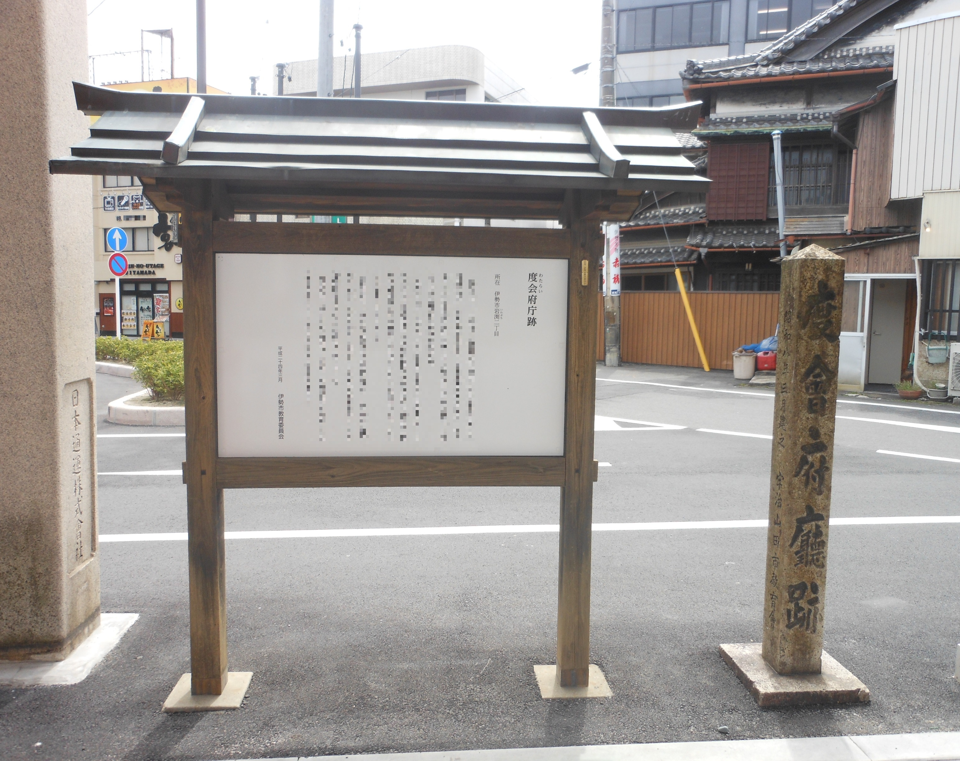 This is the site of Wakamori Prefectural Government in Iwabuchi, Ise, Mie, Japan.